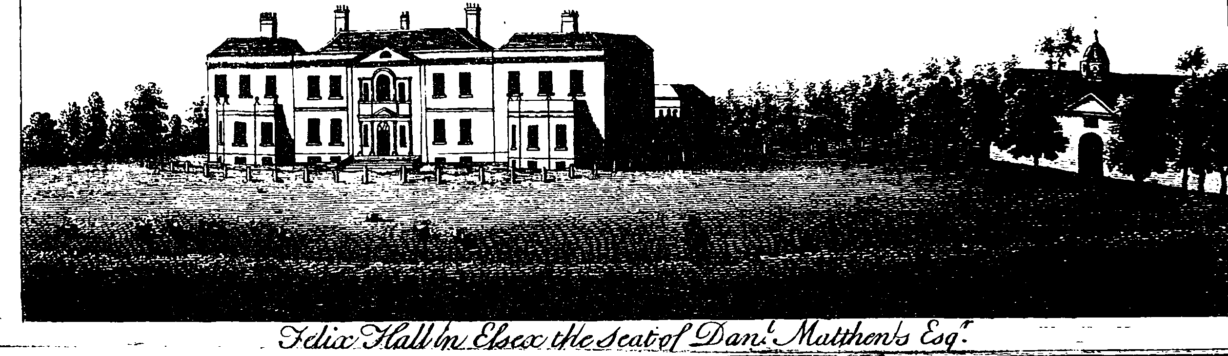 The Mathew Family, Felix Hall (Fillol's Hall), Kelvedon, Essex. Fleuron from book: A new display of the beauties of England: or, a description of the most elegant or magnificent public edifices, royal palaces, noblemen's and gentlemen's seats, and other curiosities, ... in different parts of the kingdom. Adorned with a variety of copper plate cuts, neatly engraved. Volume the first.